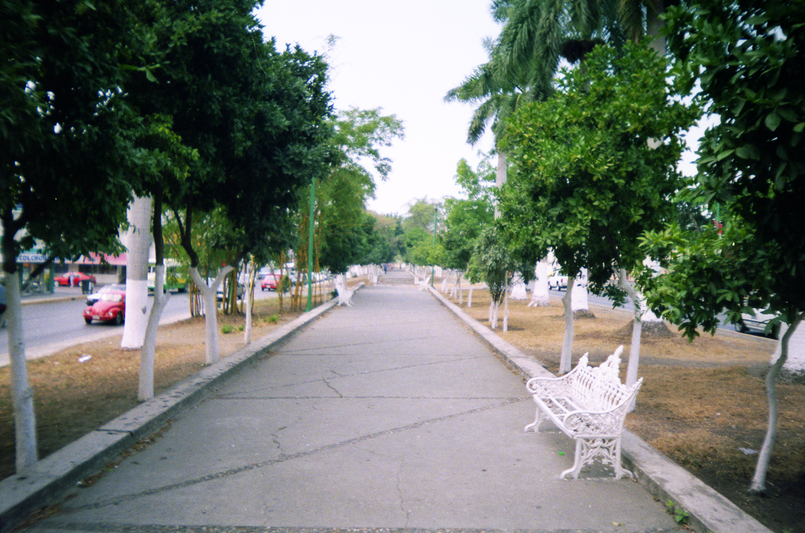 The Ruiz Cortinez boulevard in Poza Rica, Veracruz, Mexico